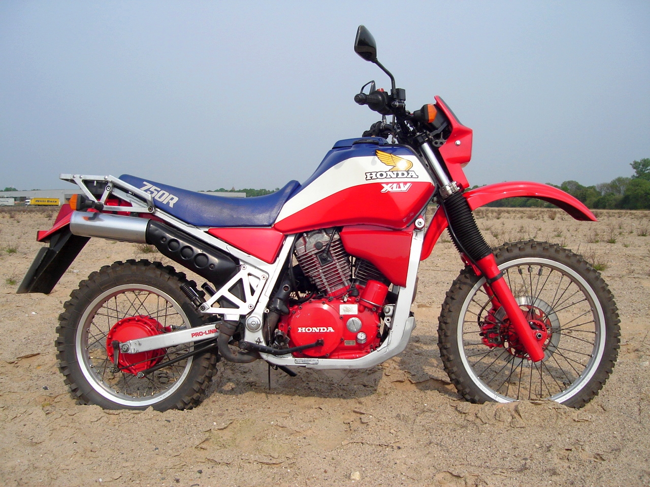 Honda XLV750R dual-sport motorcycle in stock condition, photo taken in 2011. The red, white, and blue D-type was produced in the years 1983 and 1984.